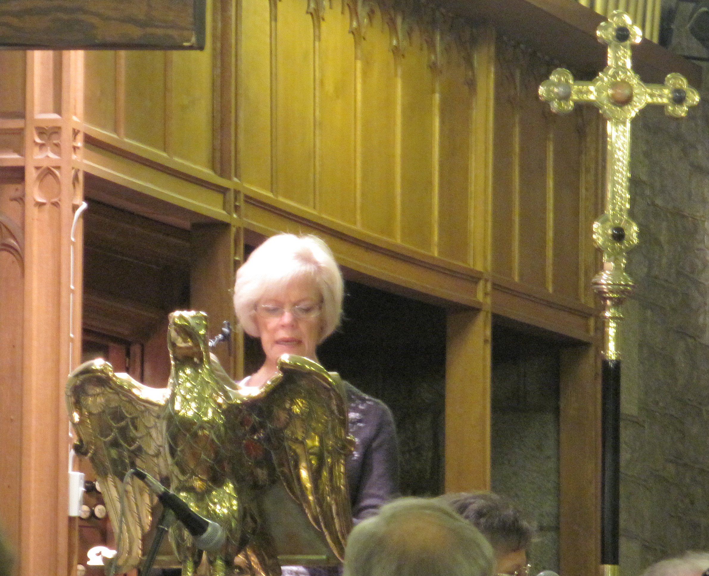 Service of Nine Lessons and Carols in Jèrriais, Saint Andrew's Church, Saint Helier, Jersey, December 2009